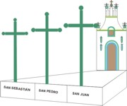 Coat of arms of Chamula